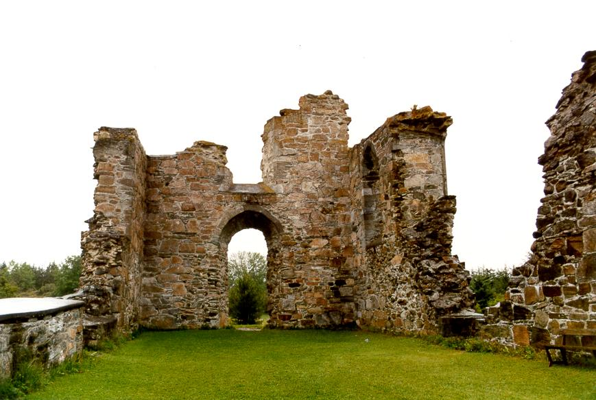 Tautra Mariakloster, Norway West entry of nave of the old monastery